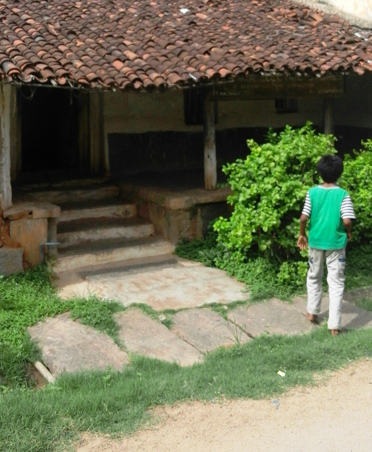 Malavalli, Mandya district, Karnataka state, India.